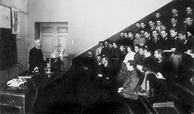 Professor Aleksei Kuliabko gave a lecture on the physiology (1907)